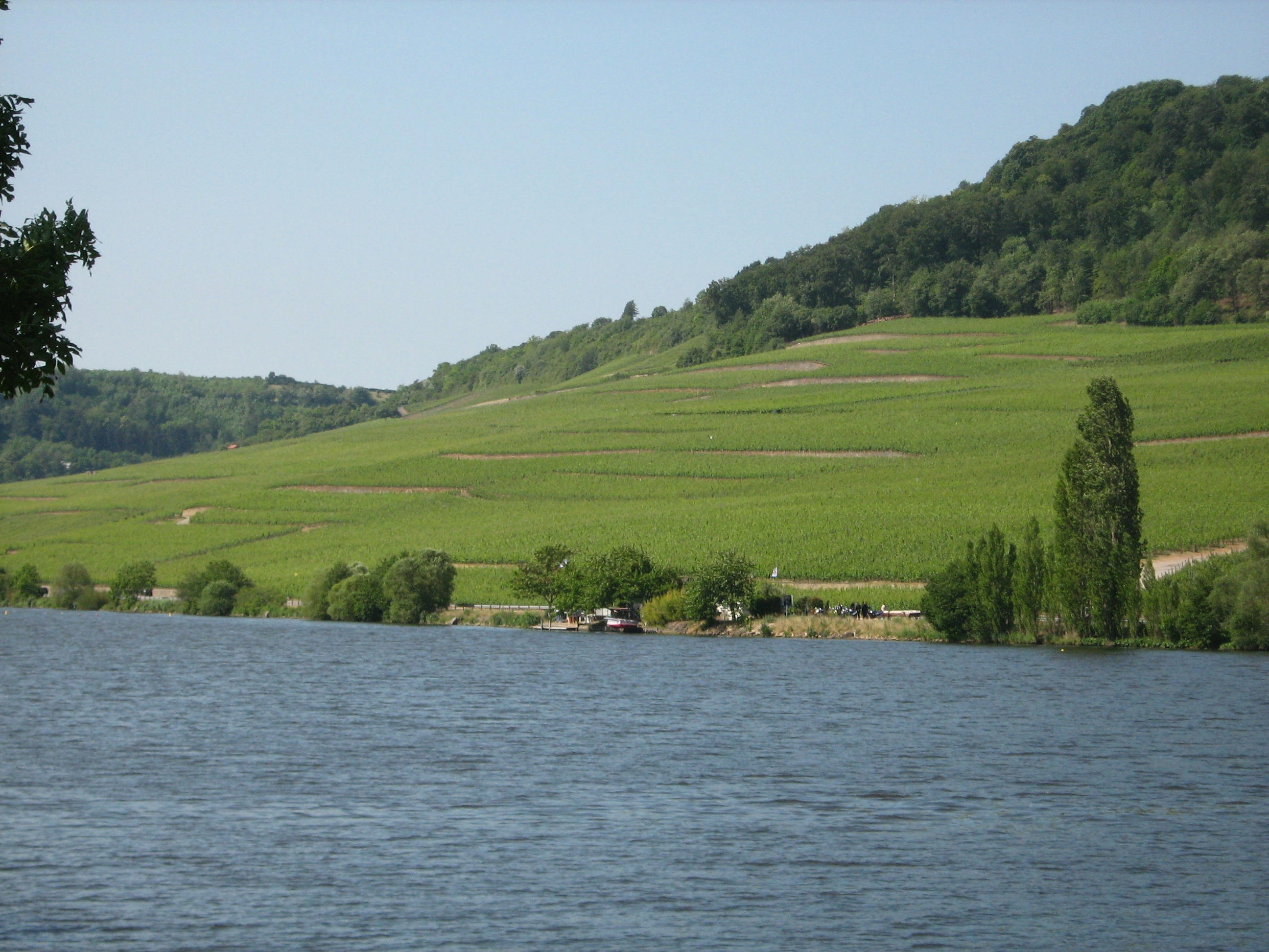 Vinyards in the Moselle Valley near Machtum, Luxembourg. Viewed from the German side of the river.